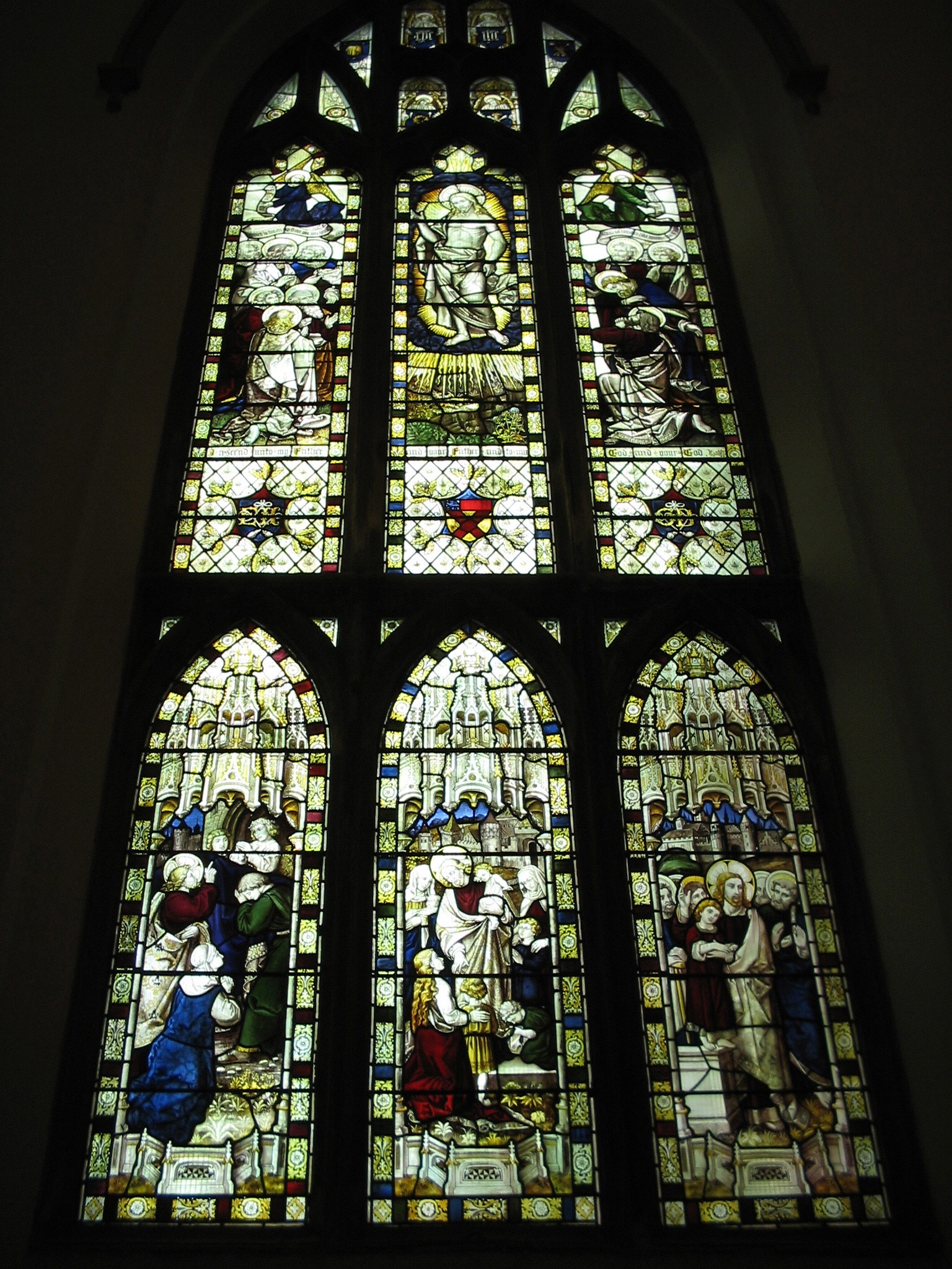 A stained glass panel depicting Biblical scenes at a historic church in Scotland